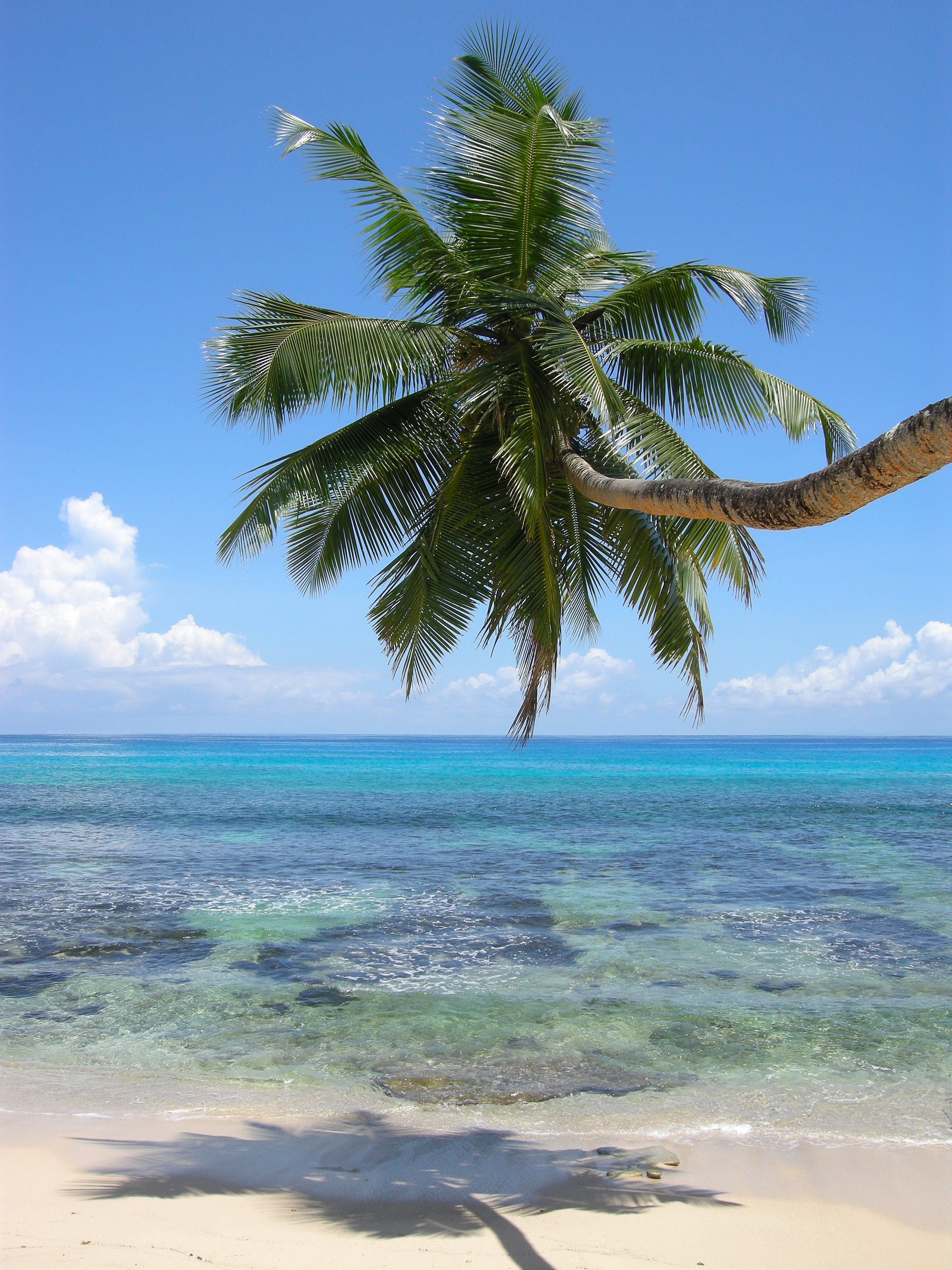 Anse Takamaka, Mahé, Seychelles